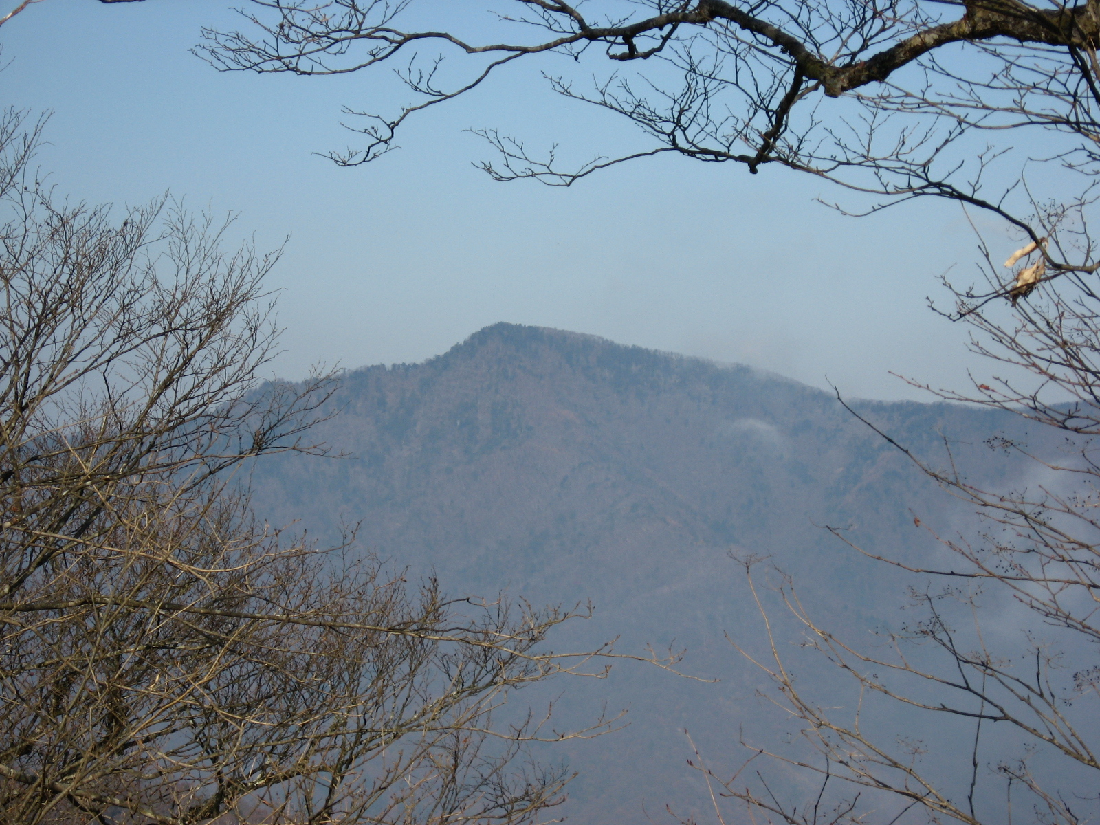 Imonoki Dokke as seen from the west. Shot at nearby Mount Takanosu